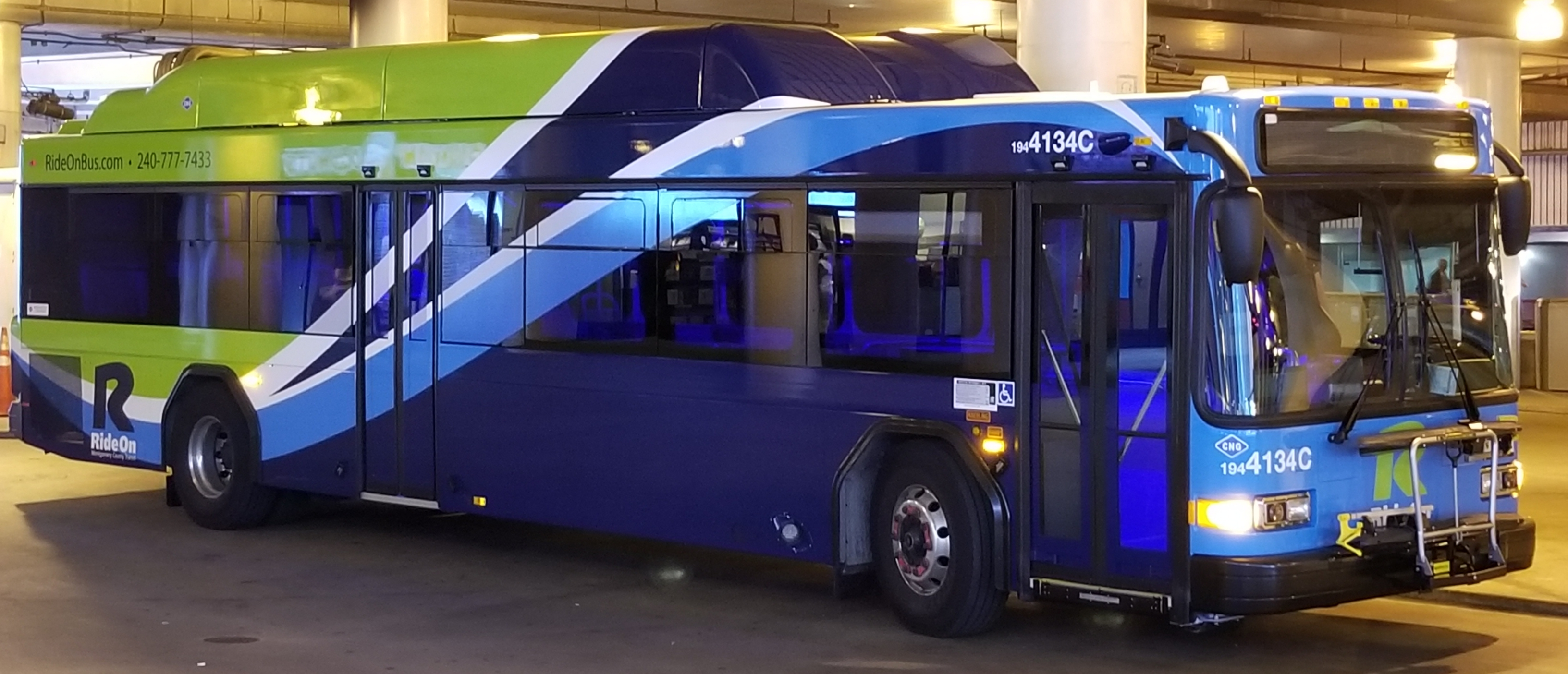 RideOn bus #1944134C in RideOn's new livery at Bethesda station